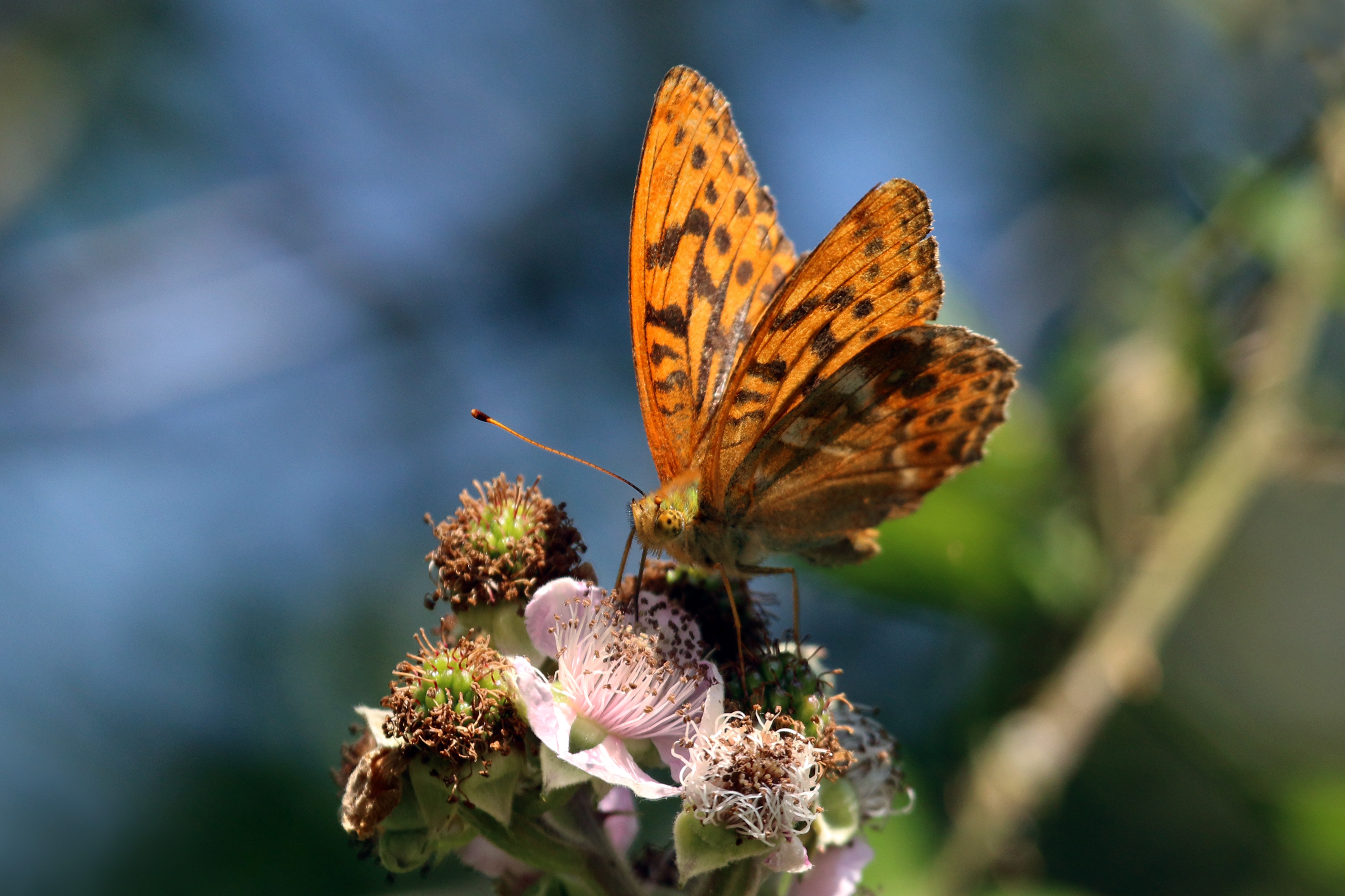 Silver-washed fritillary butterfly (Argynnis paphia) male, Aston Rowant NNR, Oxfordshire